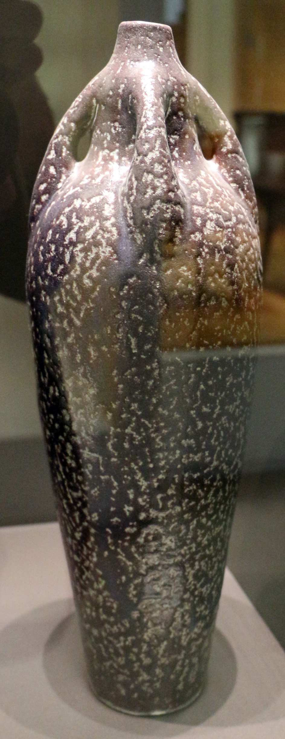 Decorative arts in the Musée d'Orsay